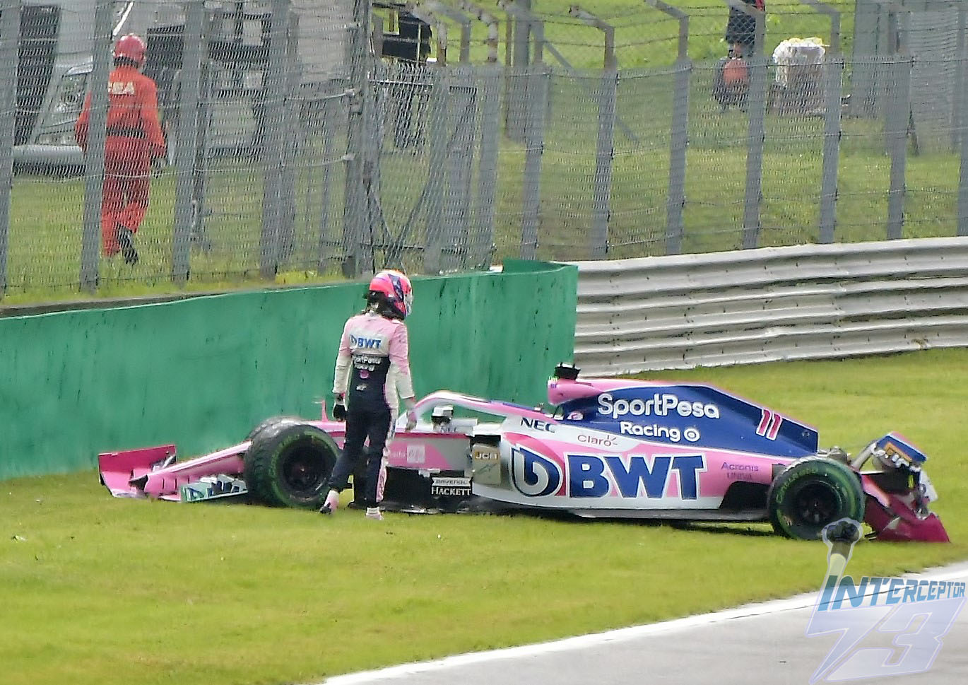 Sergio Perez, Racing Point-BWT Mercedes RP19, 2019 Italian Grand Prix, Monza, 6th September